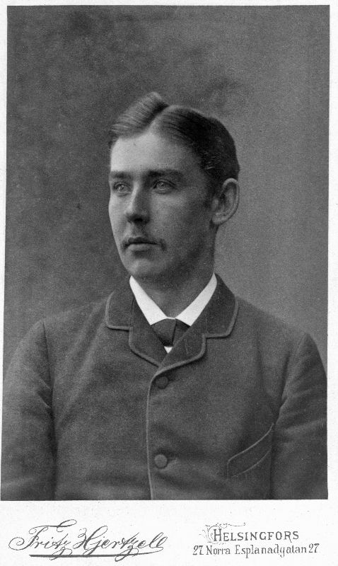 Photograph of the Finnish banker Nild Idman (1858–1944).